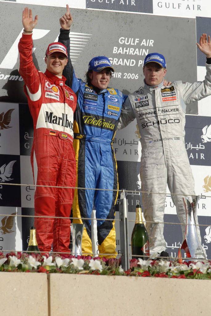 The podium of the 2006 Bahrain Grand Prix: (l-r) Michael Schumacher, Fernando Alonso and Kimi Räikkönen.